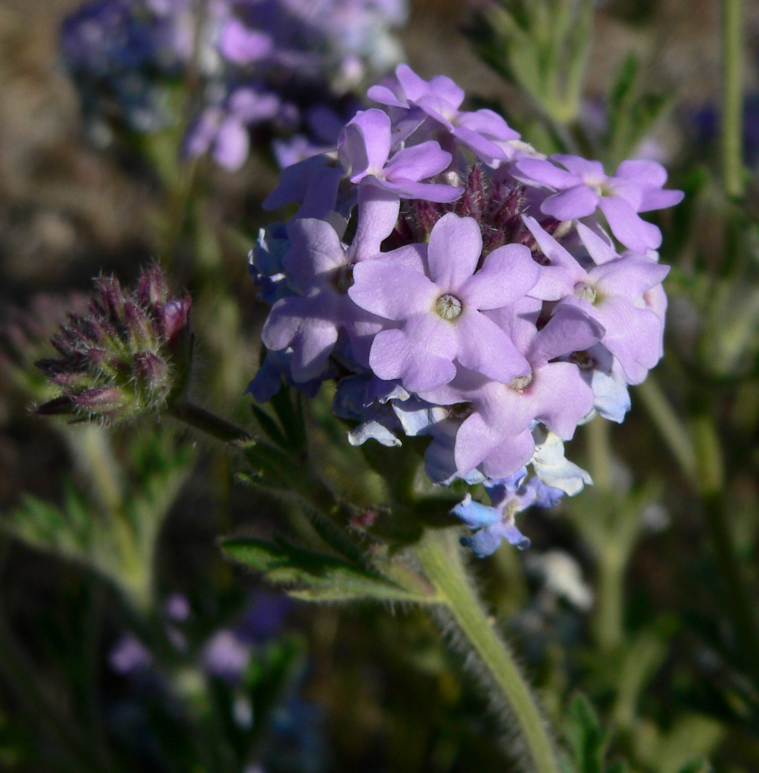 Glandularia gooddingii just off the Nipton-Searchlight road (Nevada state route 164) near the Wee Thump Wilderness, southern Nevada